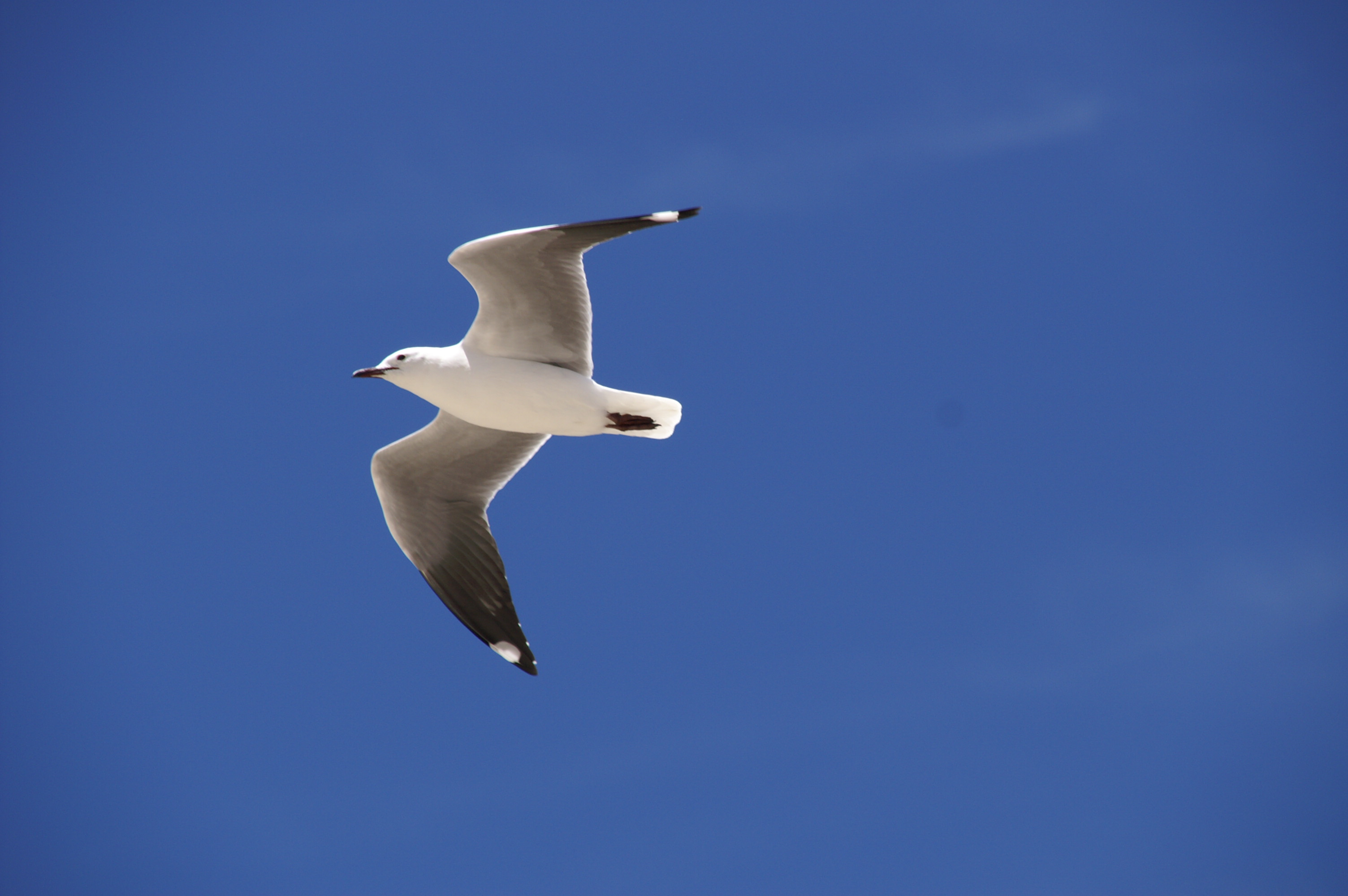 Hartlaub's Gull Larus hartlaubii, gull, blue sky, grey, flying. Capetown, South Africa.